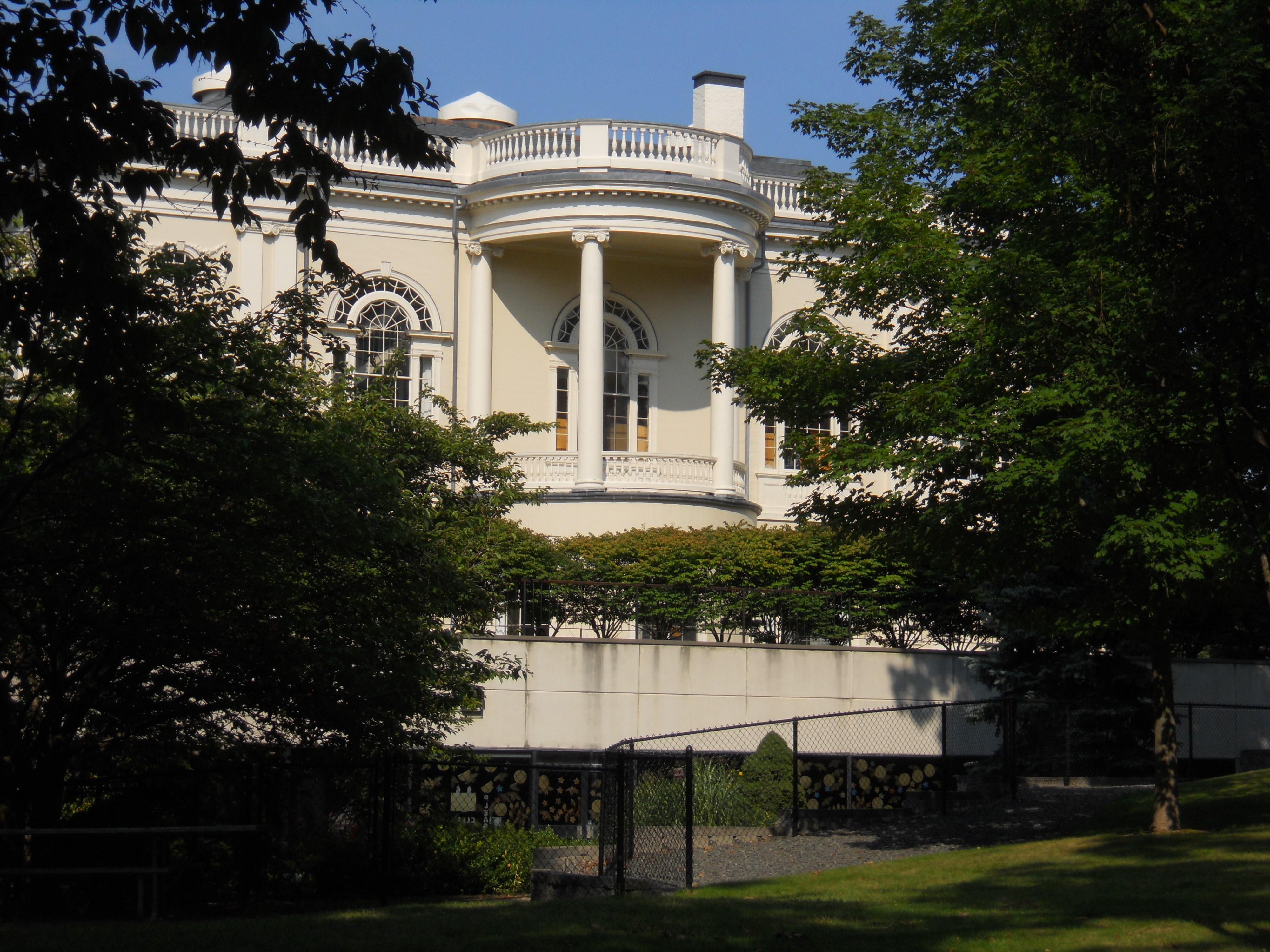 Rear view of the remodelled Peabody Institute Library, Danvers, MA, August 2012. The basement annex containing the children's room and a function room are in the foreground, with the semi-subterranean children's garden before it.